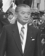 Dutch Premier Ruud Lubbers welcomes Japanese Prime Minister Noboru Takeshita at Schiphol inspection honor guard